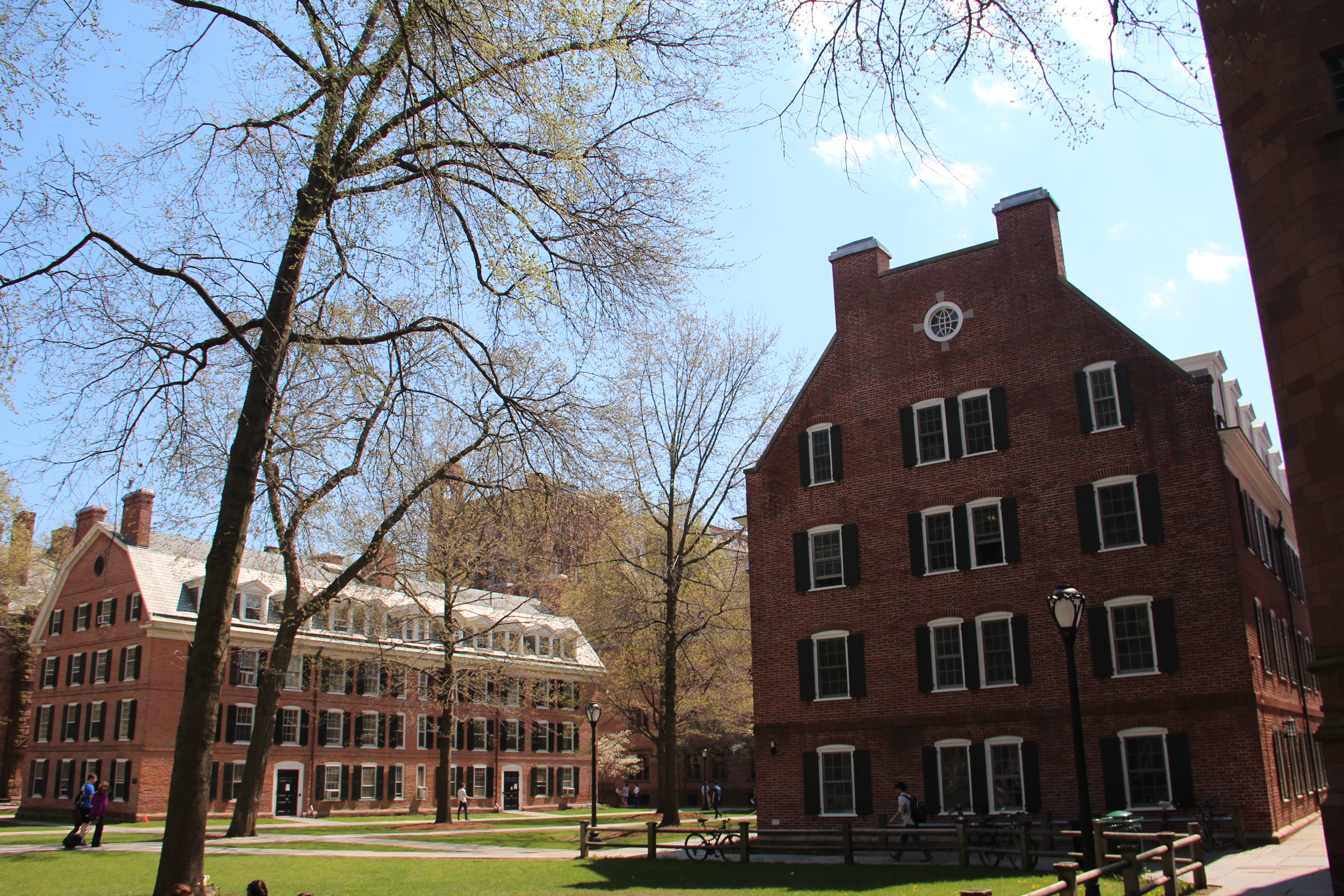 Connecticut Hall, left, Yale's oldest surviving building, and McClellan Hall, right, a symmetrical building erected in 1924, Old Campus, Yale University, New Haven, CT